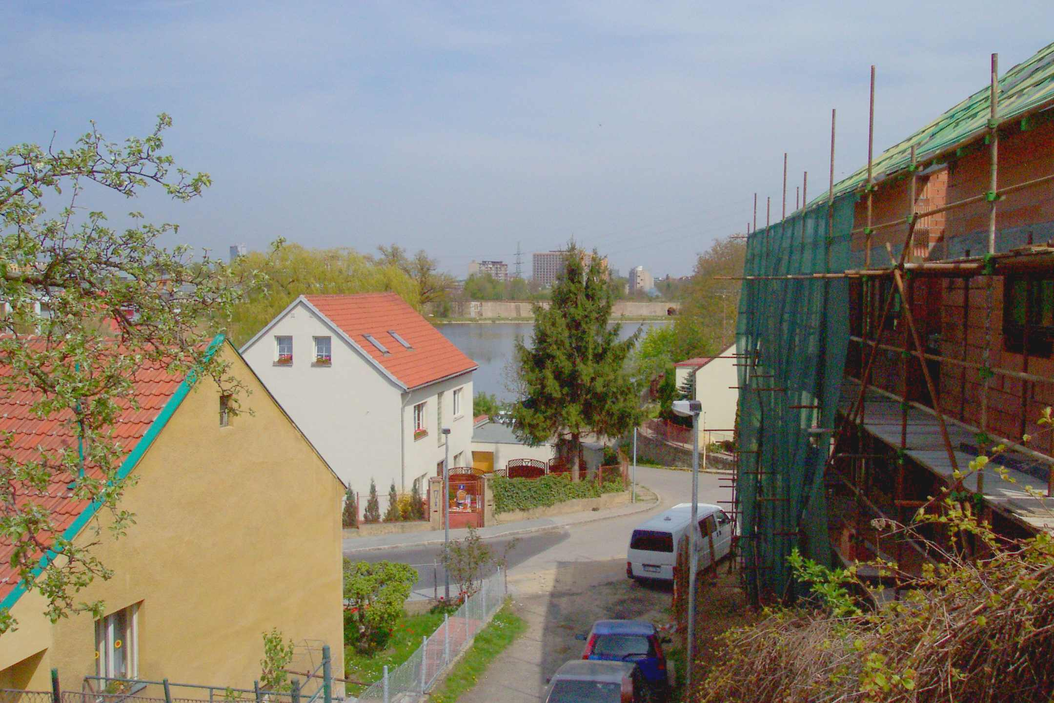 Prague, Liboc, Old housing in Prague-Liboc